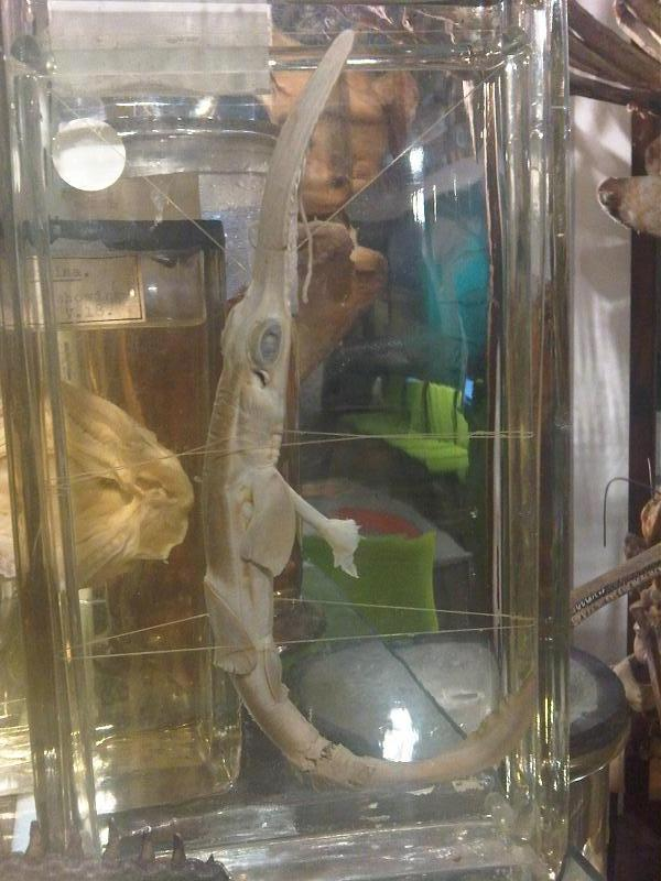 Unidentified Pristiophorus sp. in Grant Museum of Zoology, London, England.